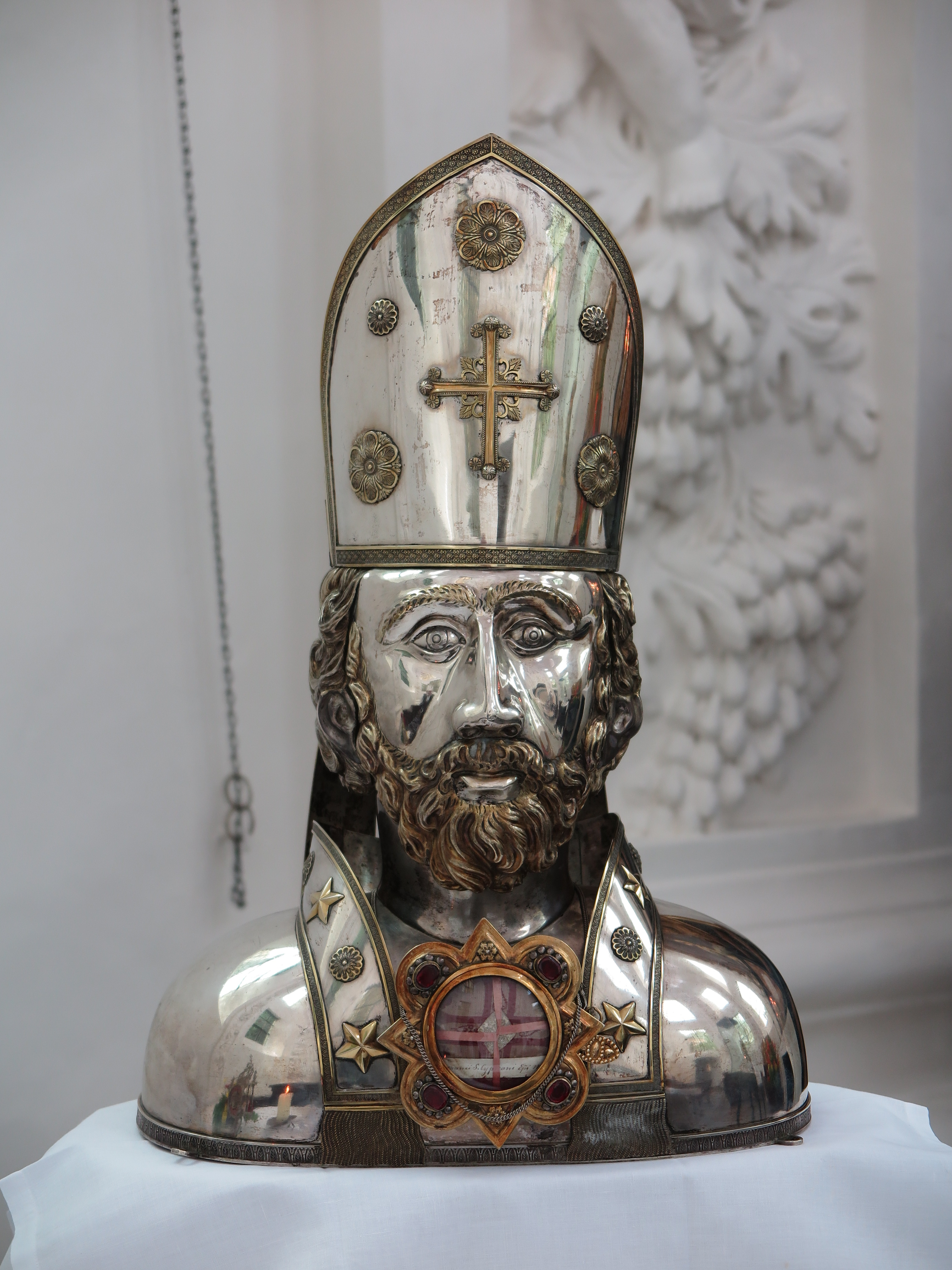 Head Reliquary of Saint Cyprian in the St. Kornelius chapel of the abbey church of Kornelimünster Abbey in Kornelimünster during the Kornelimünster pilgrimage 2014